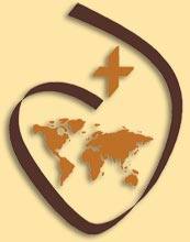 Society of the Sacred Hearth of Jesuchrist emblem, actual